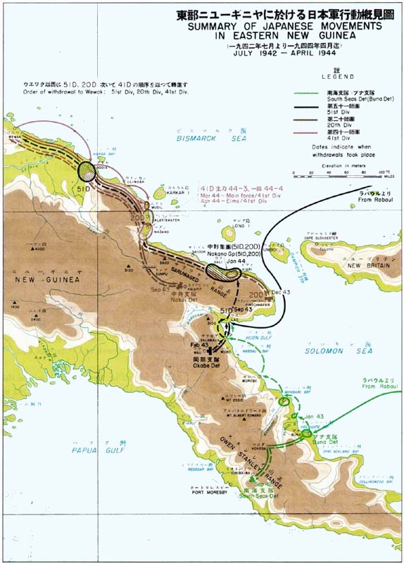 Summary of Japanese Movements in Eastern New Guinea, July 1942-April 1944